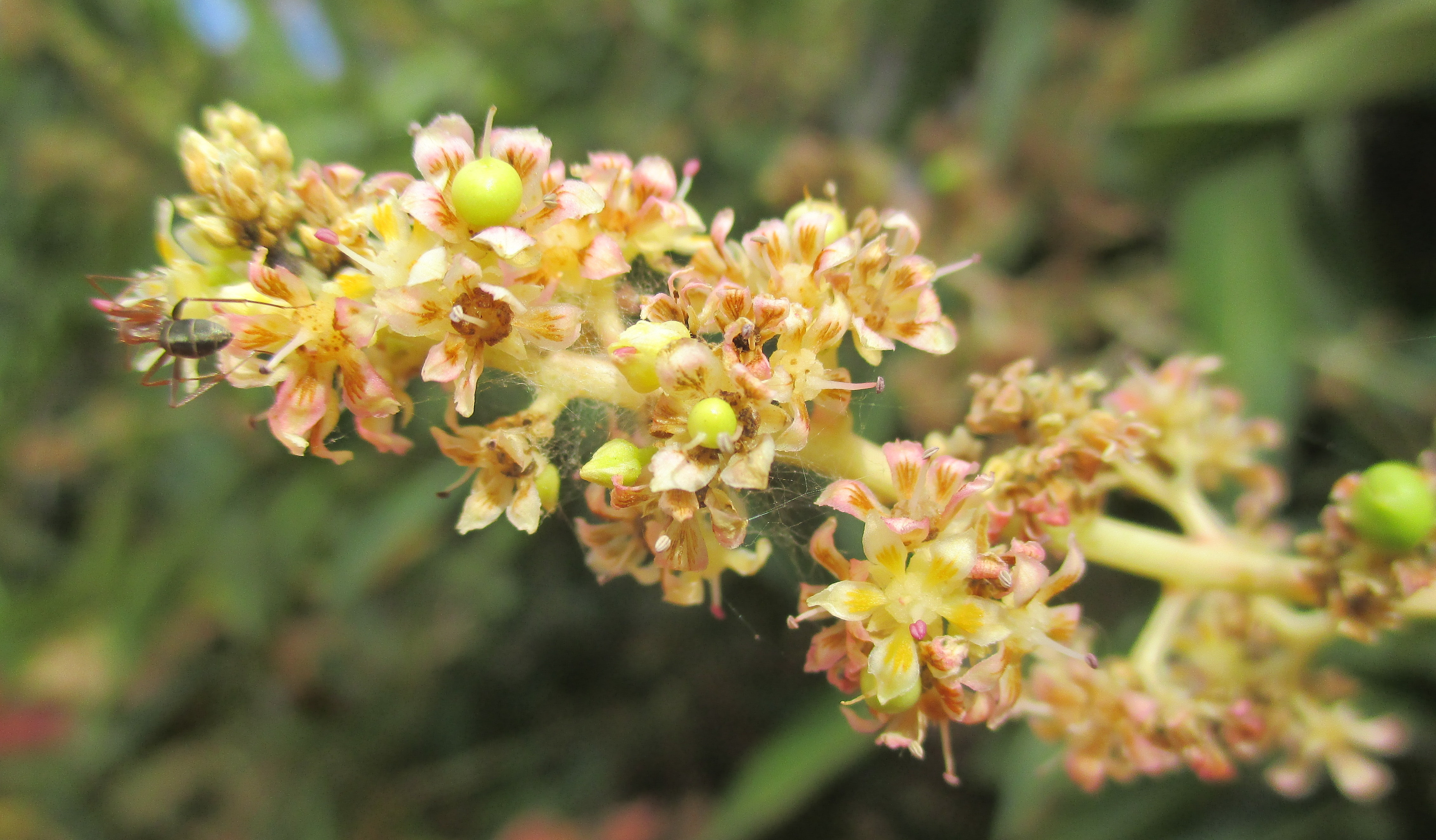 It is the Inflorescence with many coloured flowers and fruits